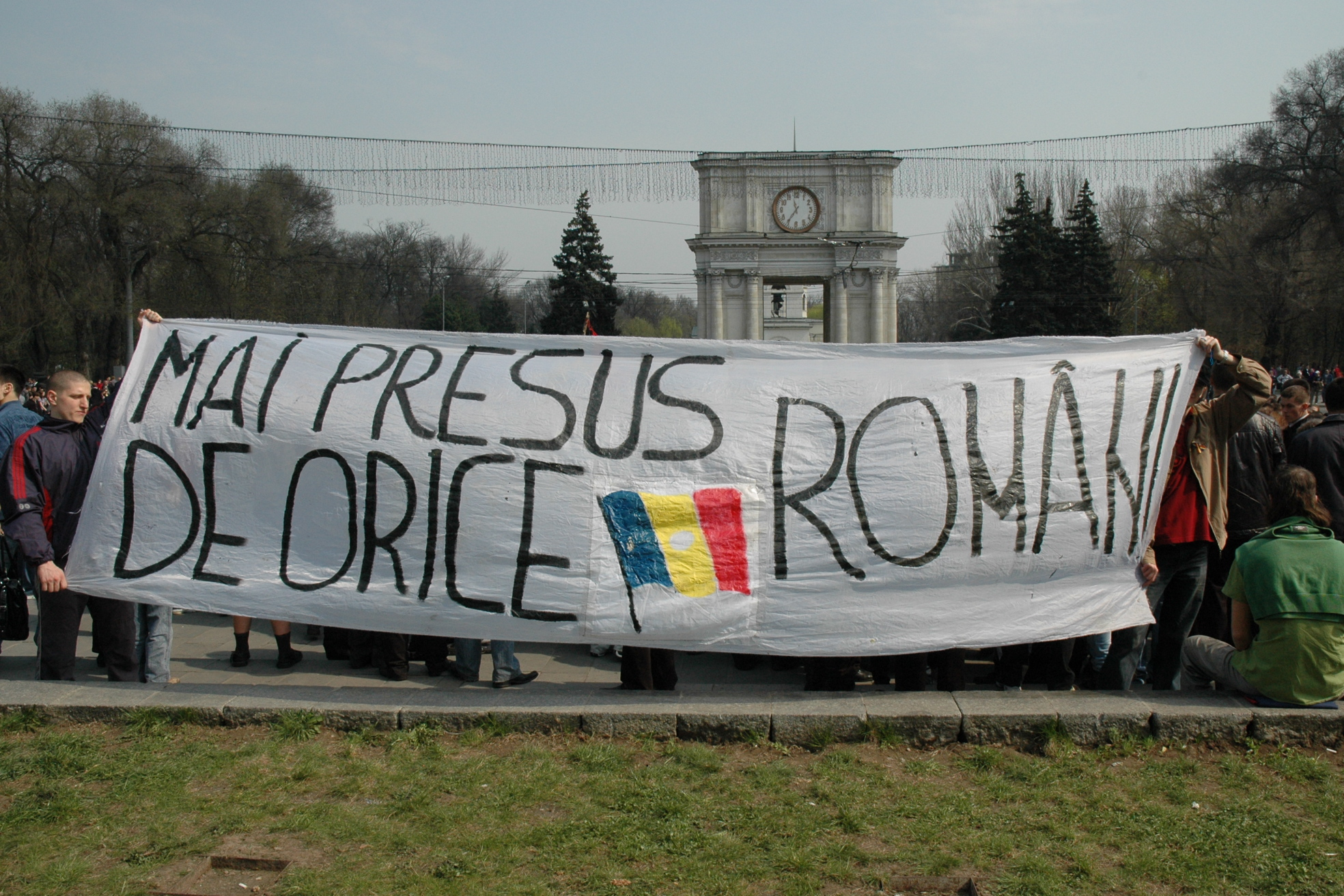 Protest in Chișinău after the 2009 parliamentary elections